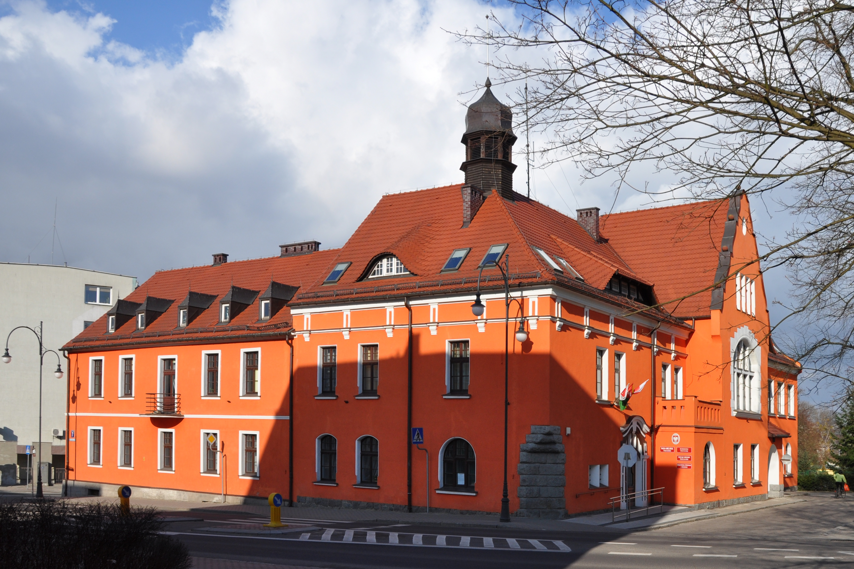 Trzcianka Town Hall, south-west side